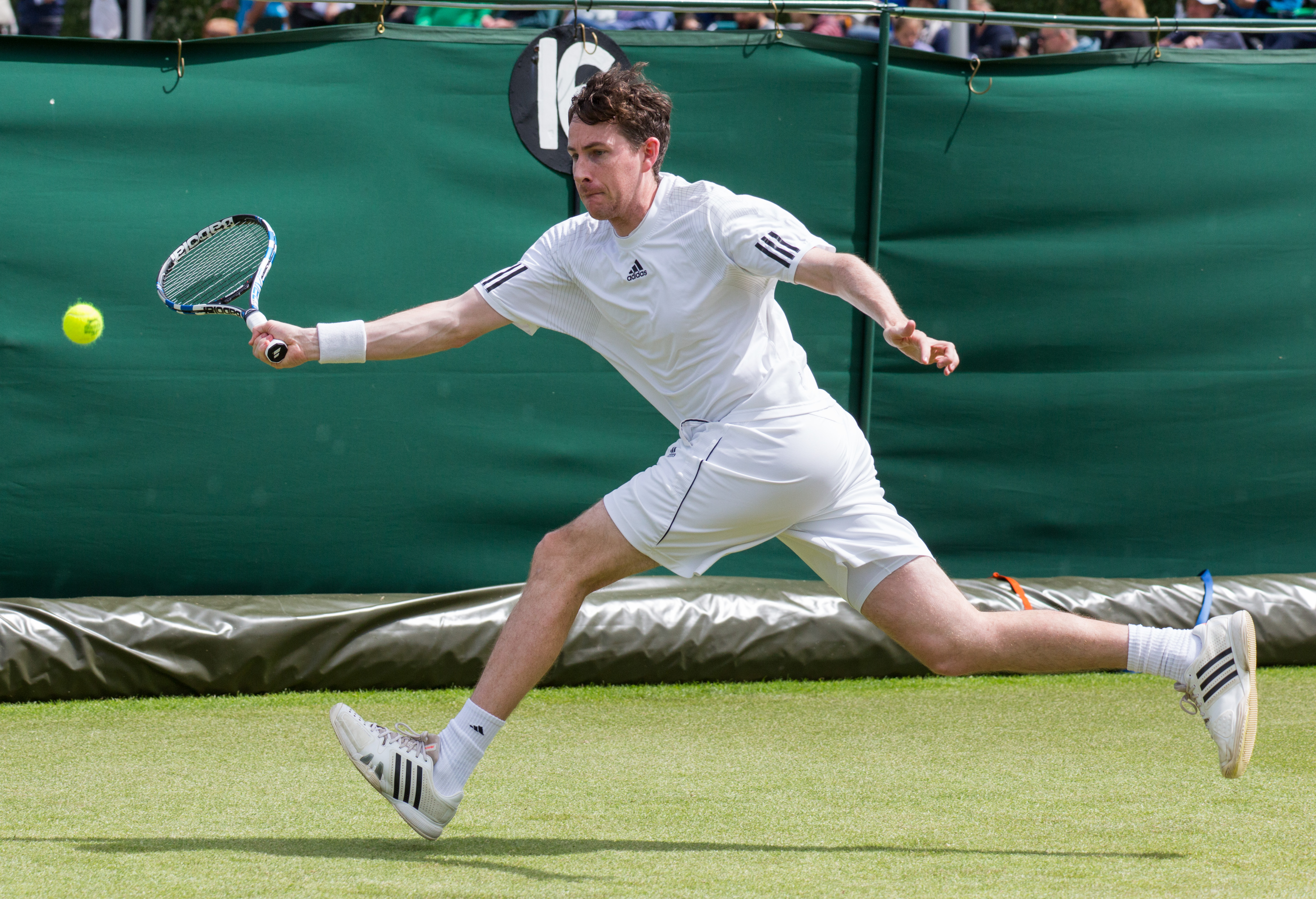 Richard Bloomfield competing in the first round of the 2015 Wimbledon Qualifying Tournament at the Bank of England Sports Grounds in Roehampton, England. The winners of three rounds of competition qualify for the main draw of Wimbledon the following week.